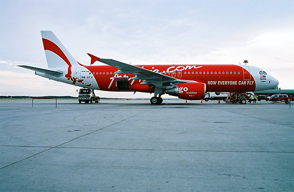 Airbus A320 (9M-AFA) der Air Asia